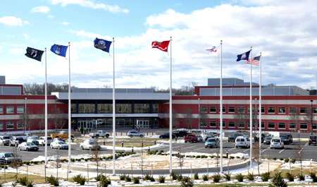 I called USMC Public Affairs on the date of publication, and asked if the image could be freeley distributed, they stated it is fine as long as I give credit to the US Federal Government.